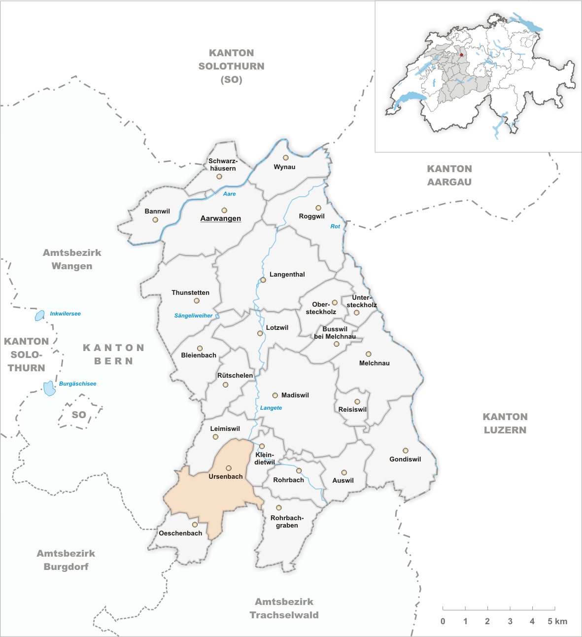 Municipality Ursenbach